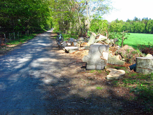 The Deeside Way near Park House The remains of a large beech tree which had been blown down across the track.